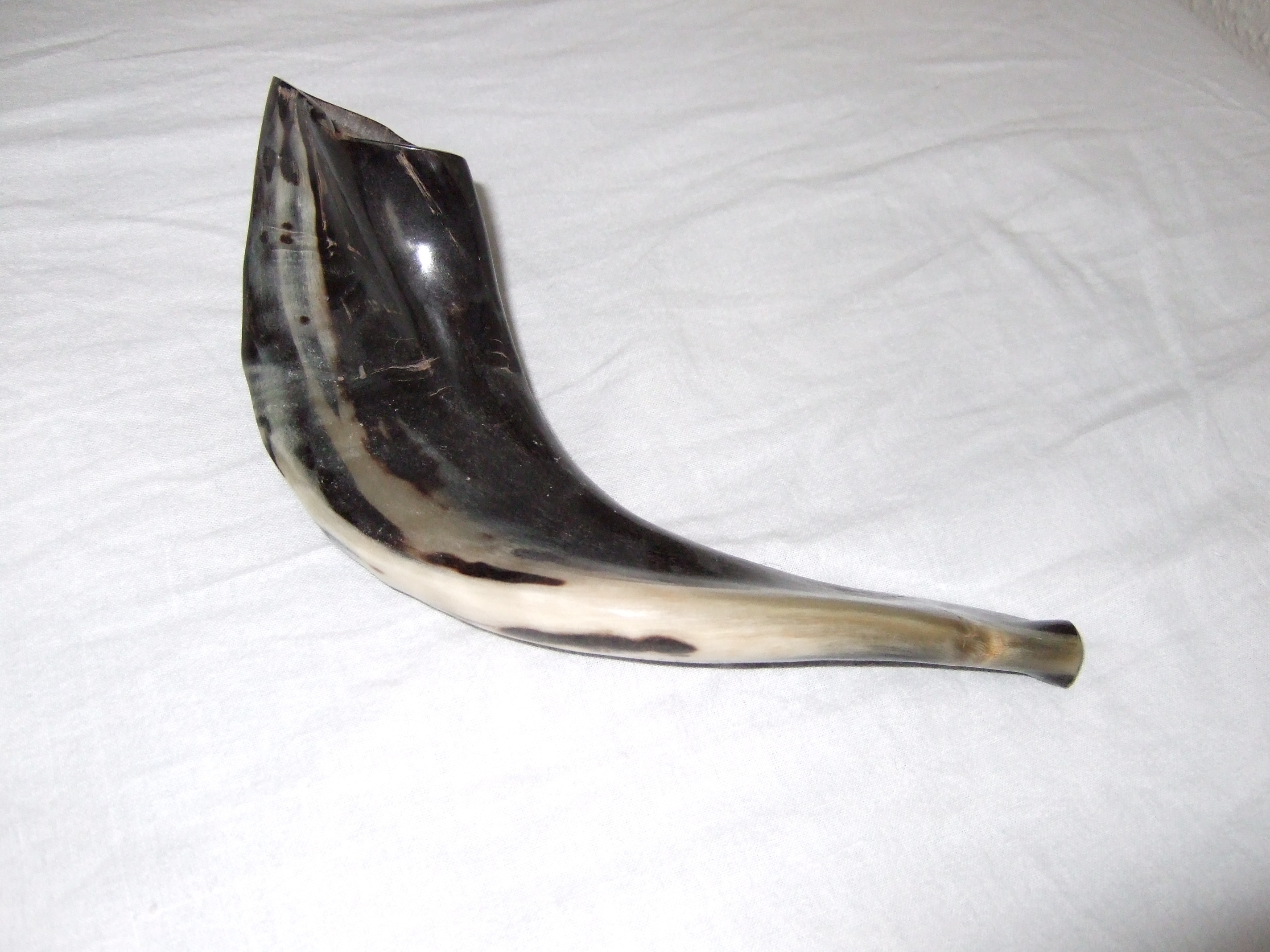 A shofar (Hebrew: שופר) is a horn used for Jewish religious purposes.